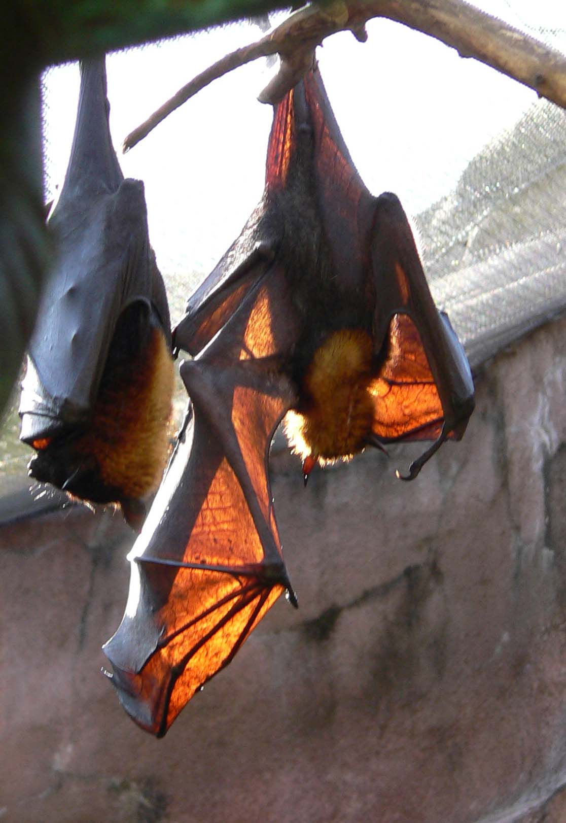 Pteropus vampyrusPictures from Disney's Animal Kingdom